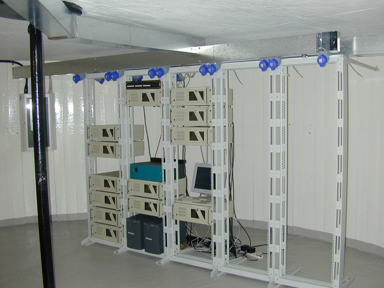 Sealand's "datacenter". At a later point there were about 10 more machines and a couple ethernet switches, nothing more. Currently HavenCo's servers are colocated in London.